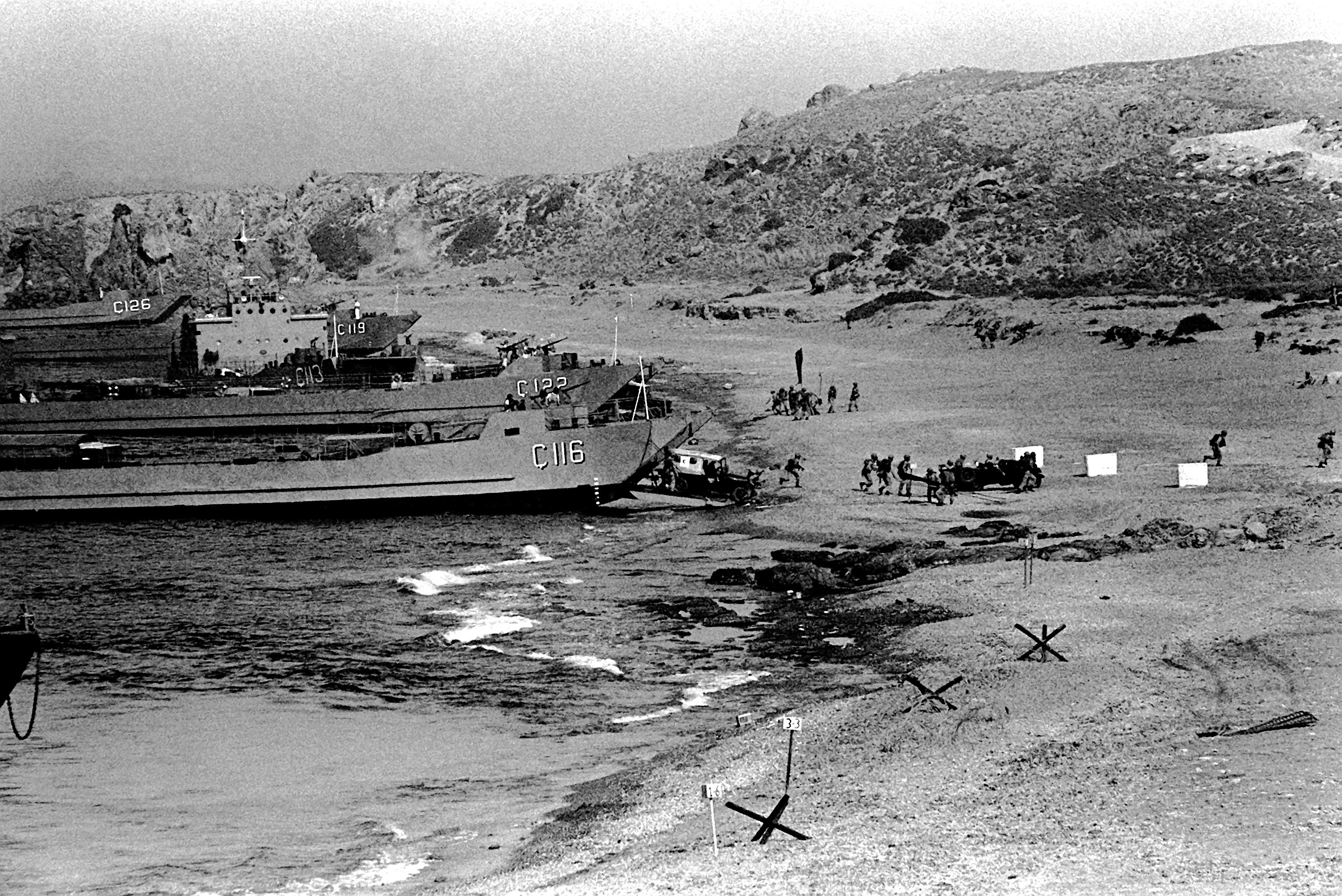 Turkish troops come ashore during the NATO exercise Display Determination '81